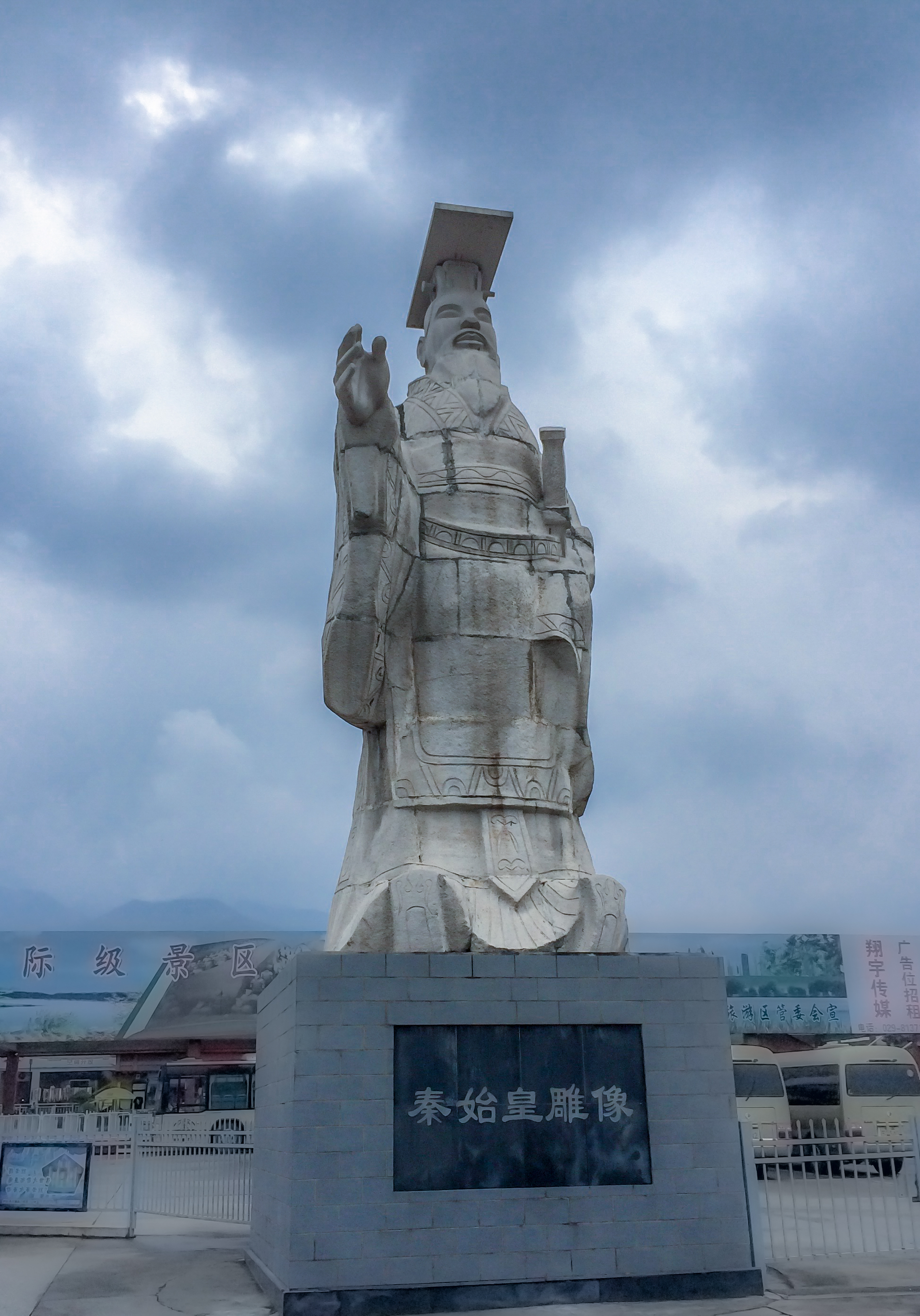 A modern statue of Qin Shi Huang (the first emperor of China) near the Terracotta Army in Xi'an